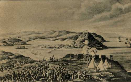 Siege of Donostia, 1813.